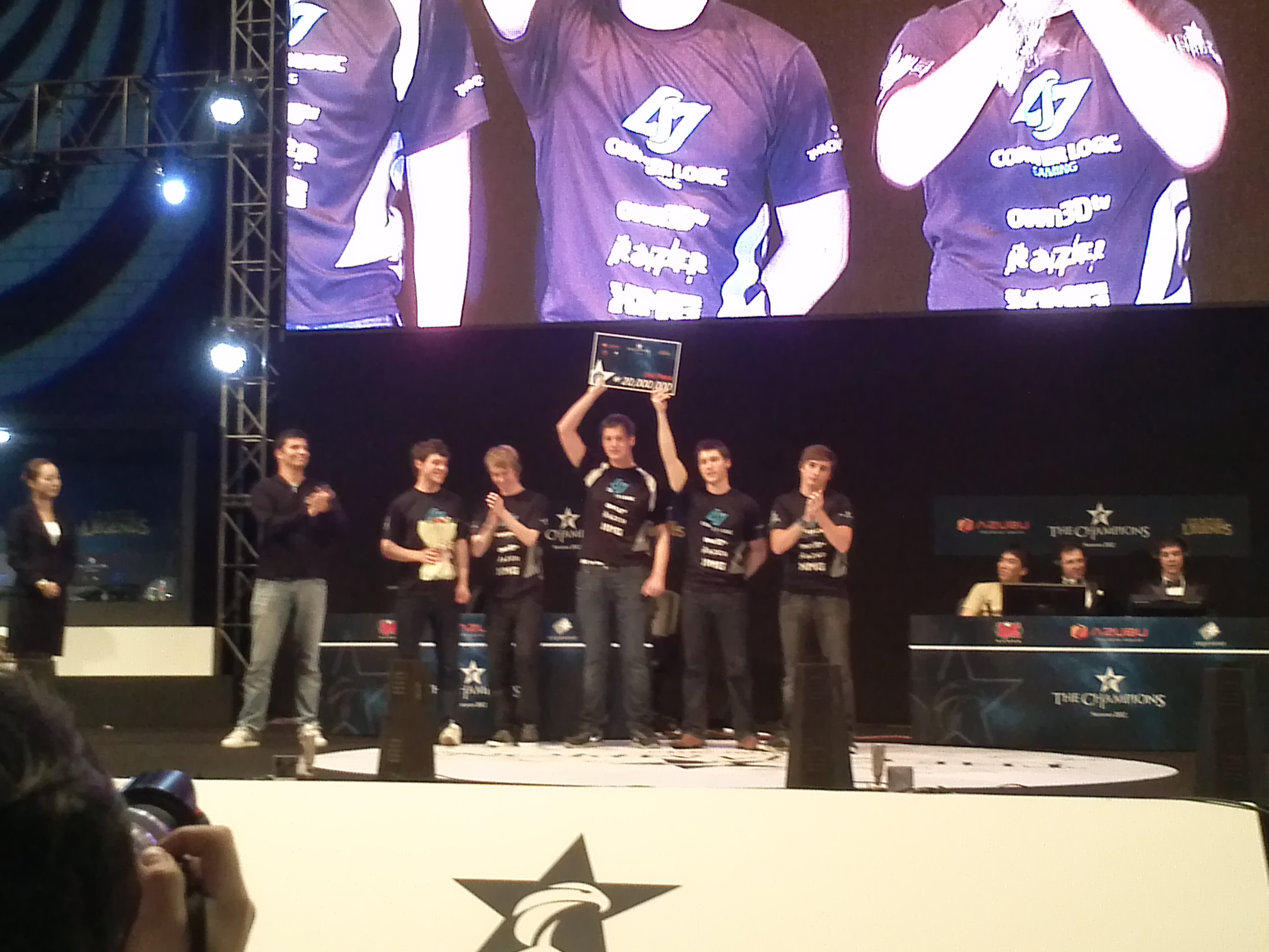 League of Legends teams of CLG EU at the OGN Champions finals 2012